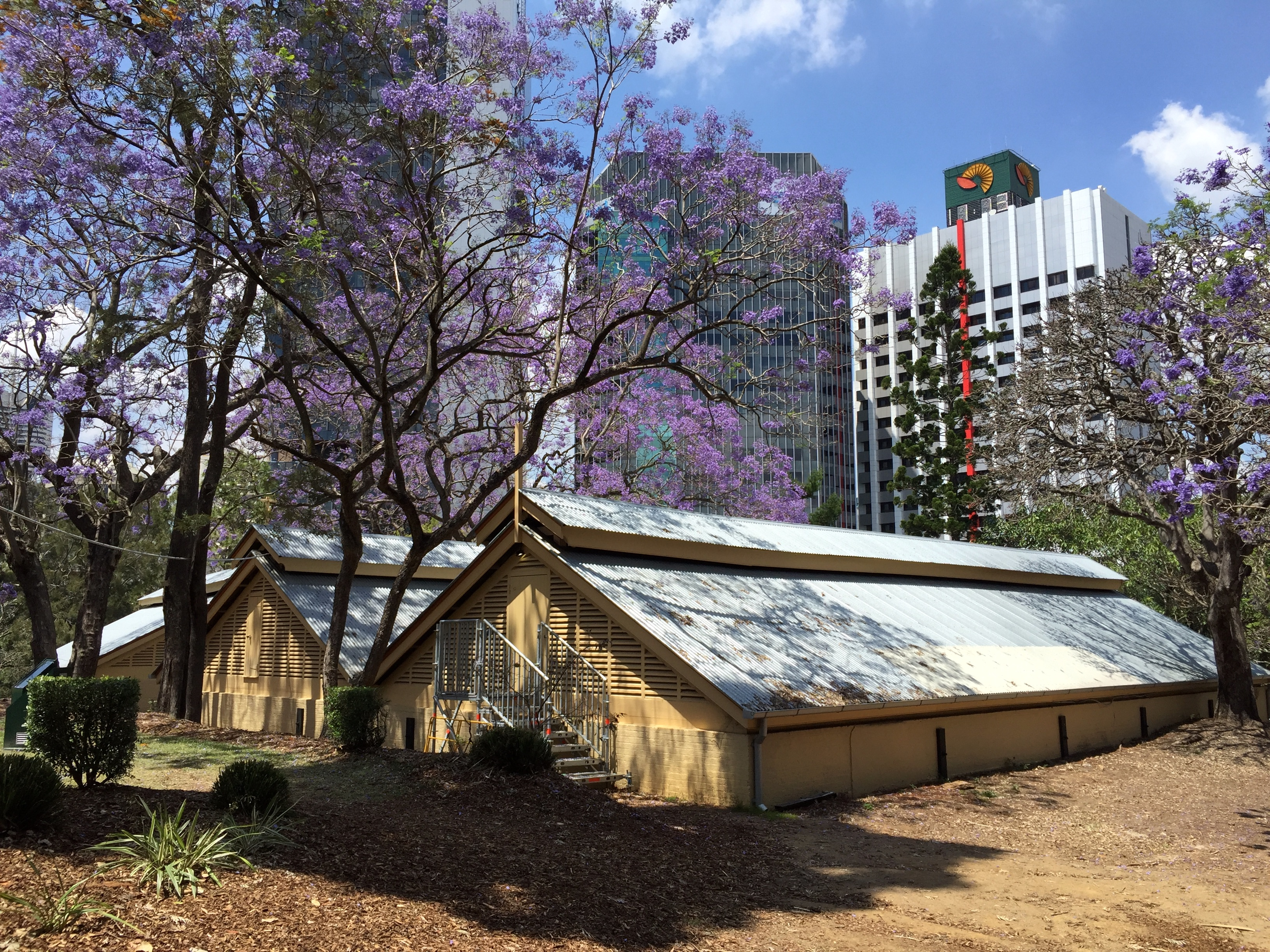 Spring Hill Reservoirs in Spring Hill, Brisbane, Queensland, October 2015